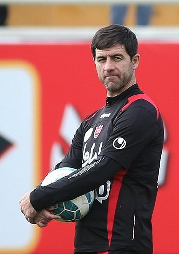 Karim Bagheri in Persepolis training